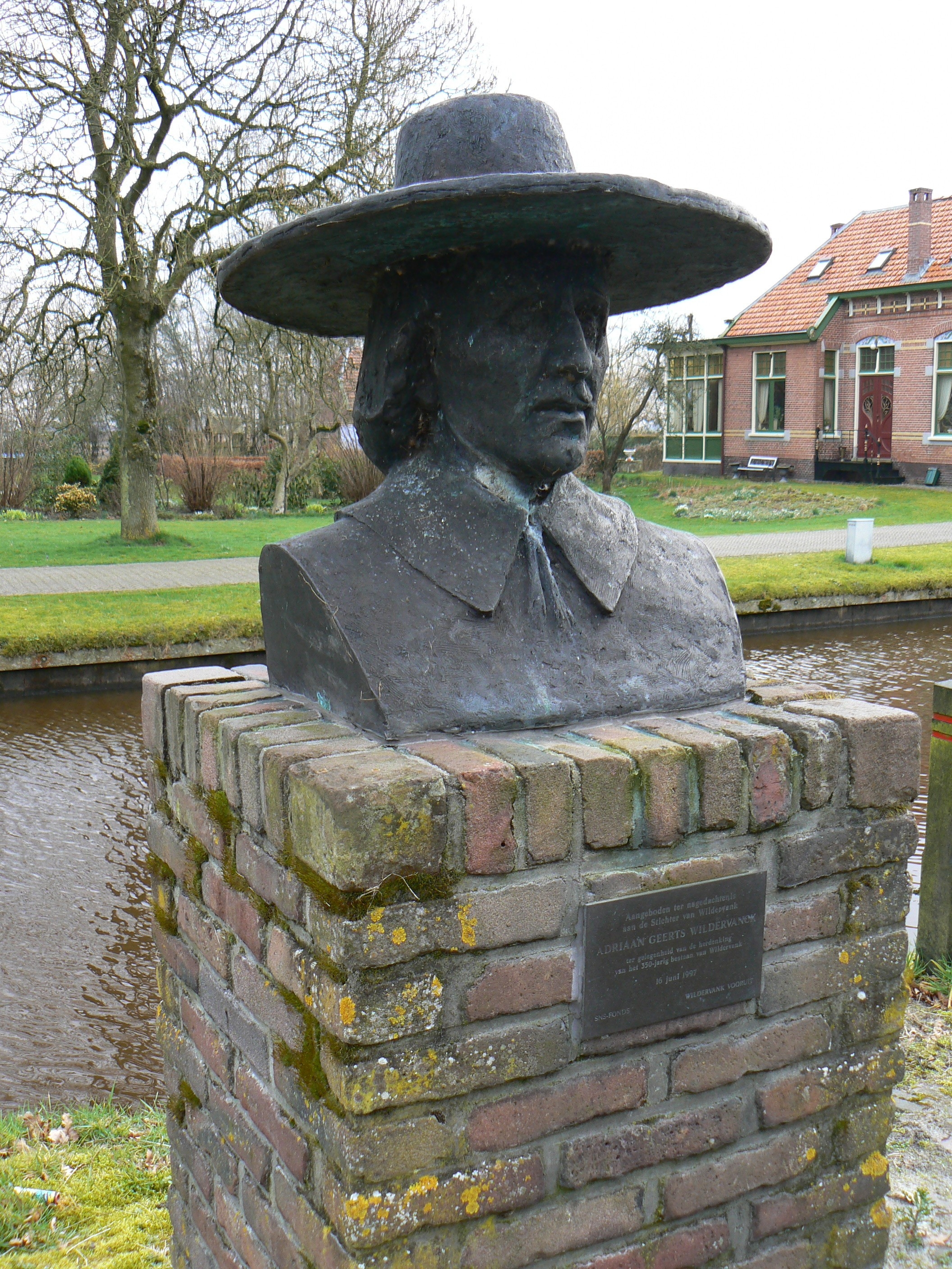 sculpture/bust A.G. Wildervanck (1997) by Bert Kiewiet in Wildervank/The Netherlands